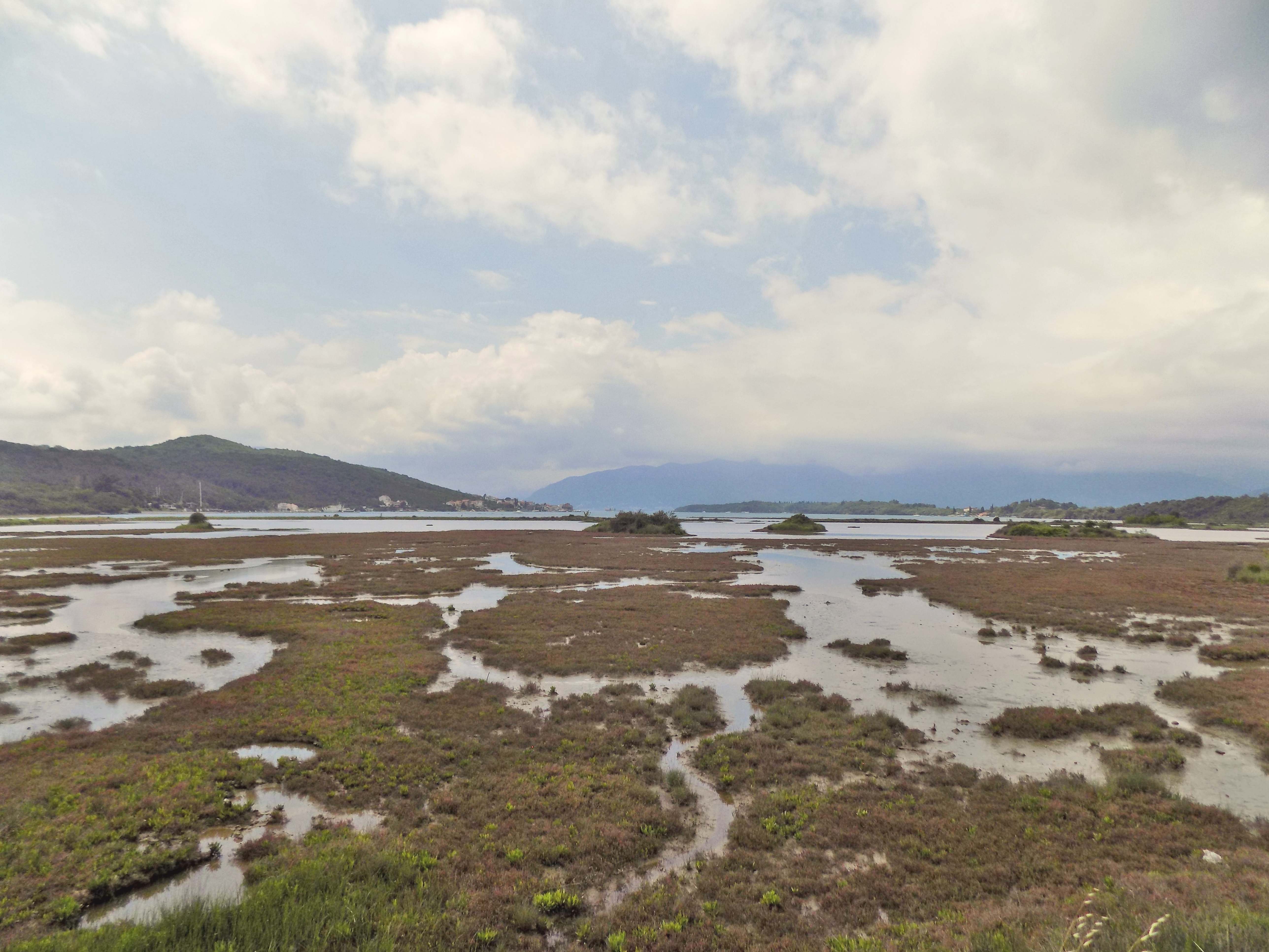 Special Nature Reserve "Solila", Tivat Municipality, Montenegro - panorama